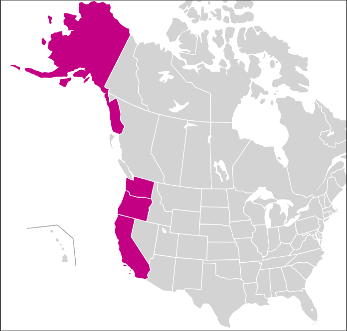 States that encompass the West Coast